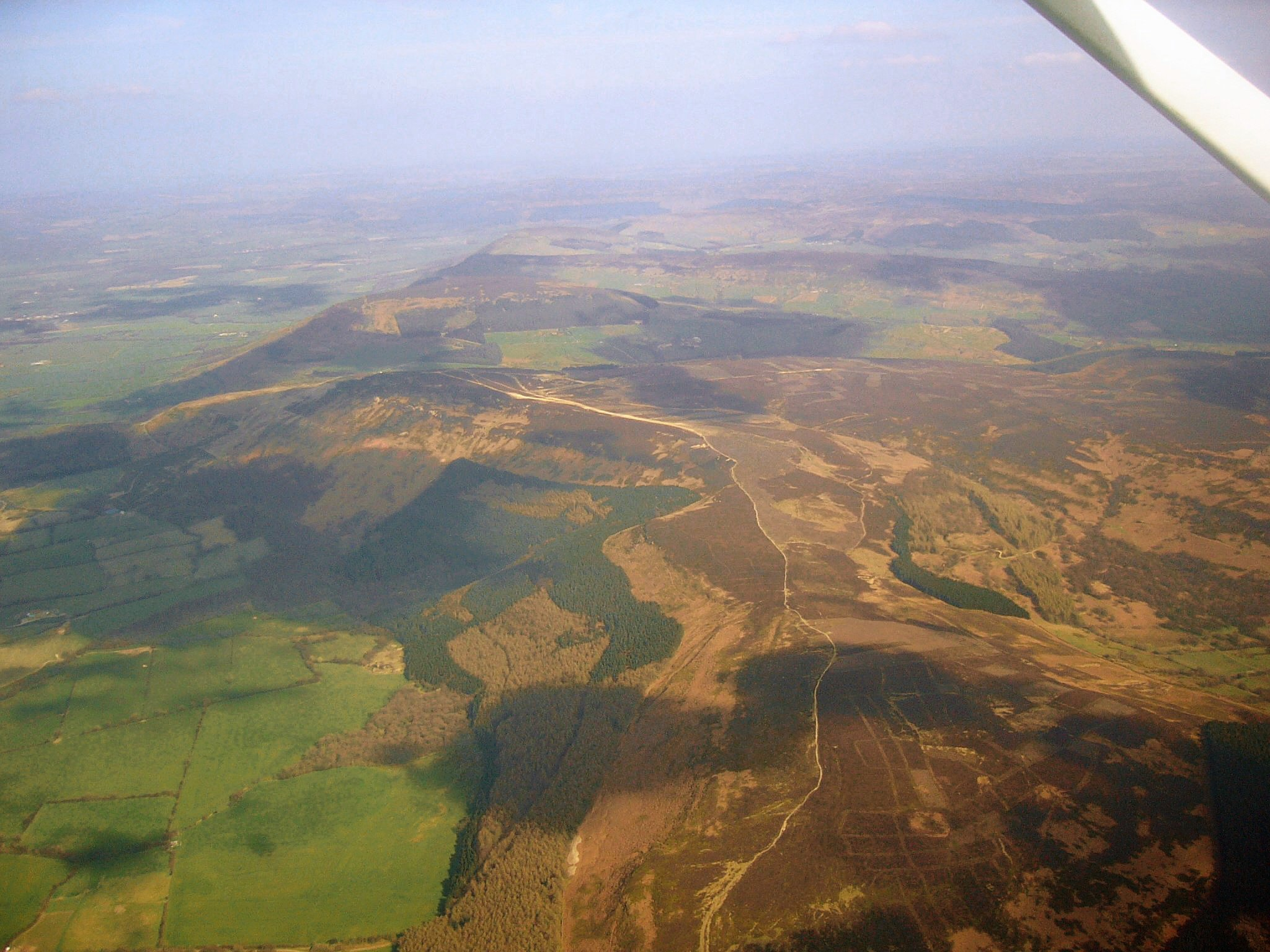 Aerial photo of the North York Moors in Yorkshire, northeast England